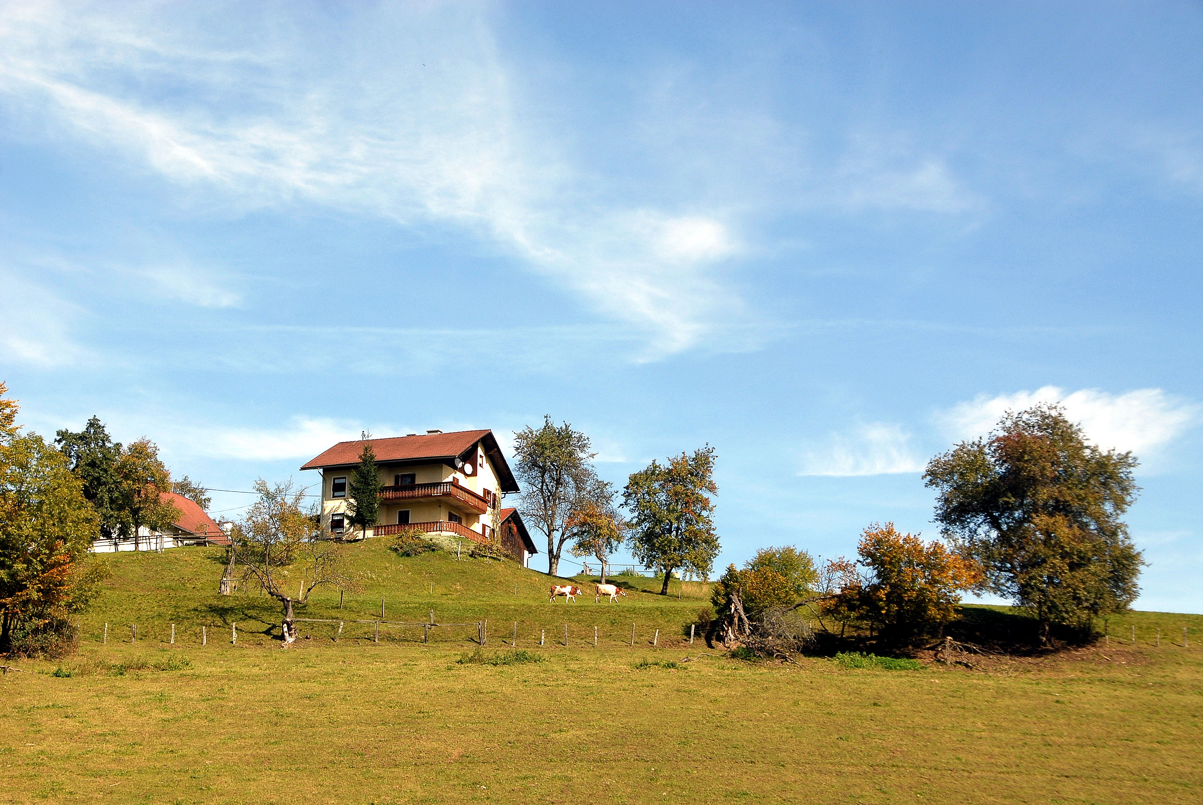 Locality Schlebnig at Sabuatach in the community Grafenstein, Carinthia, Austria